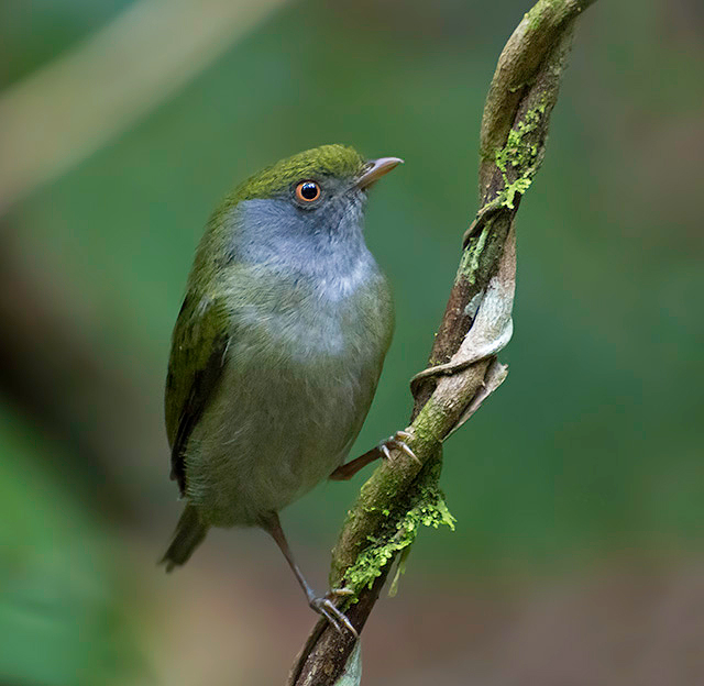 Pin-tailed Manakin